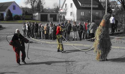 Wilflinger Strohbär